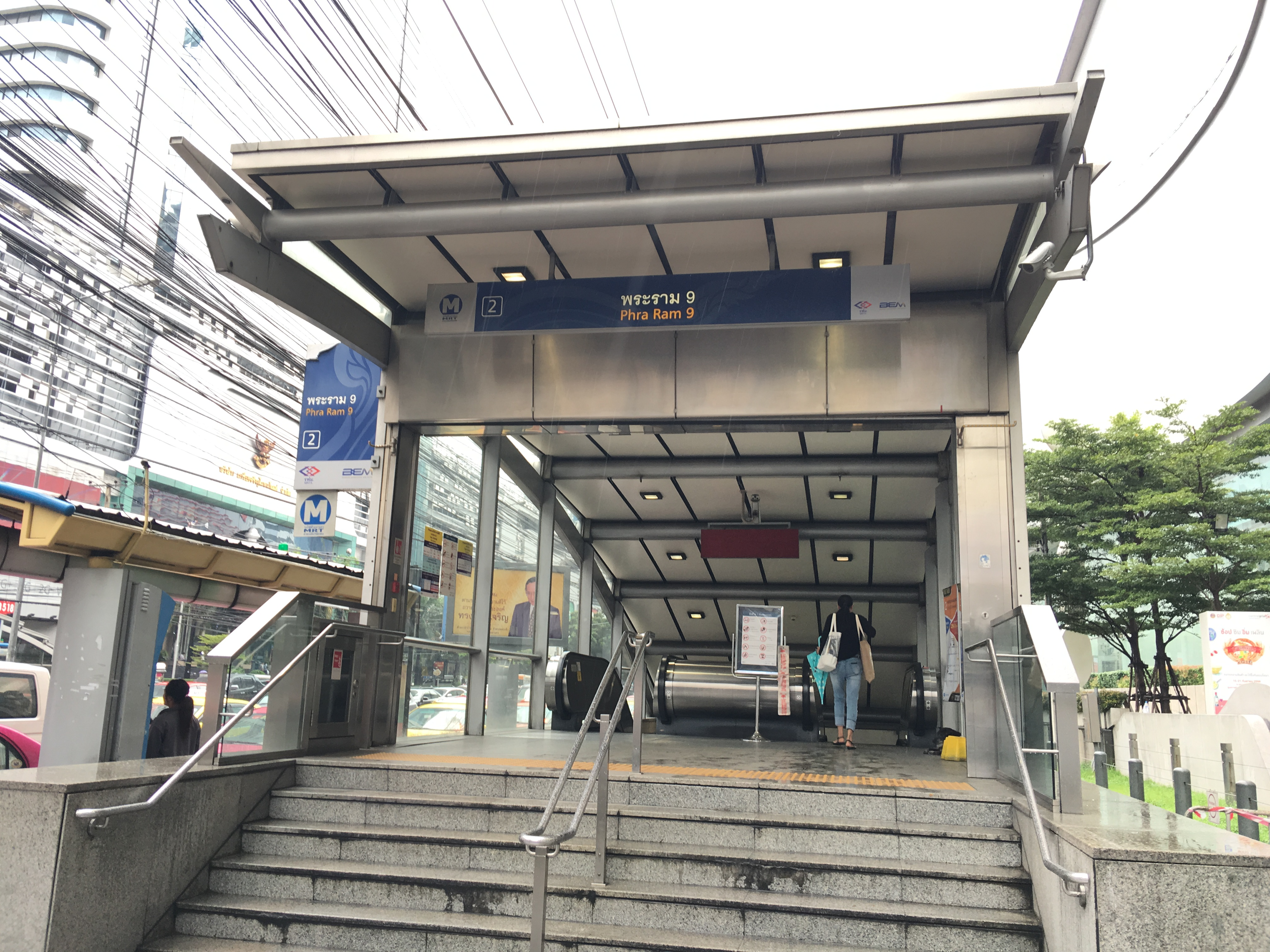 The entrance no.2 at Phra Ram 9 Station